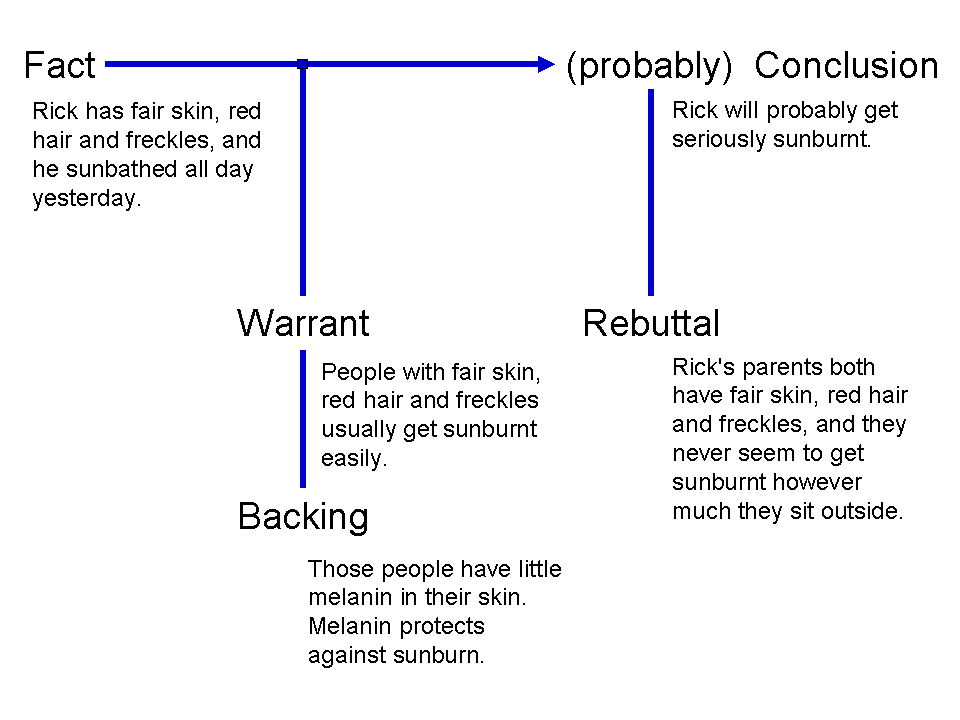 Example of graphical representation of argumentation (a rationale model) using the terminology and style of English philosopher Stephen Toulmin (1922-2009)